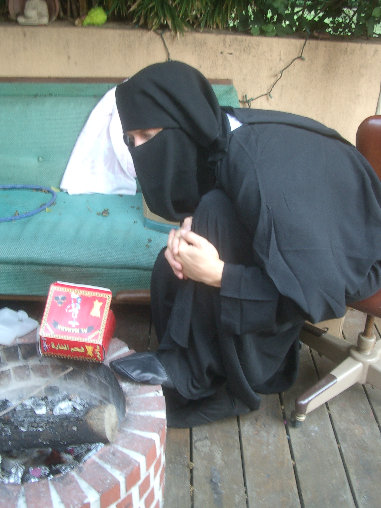 Merci shot me by the firepit in a burqa, closed abaya, and khuff. All purchased from ! I love the Khuff - leather foot socks. Very snug!